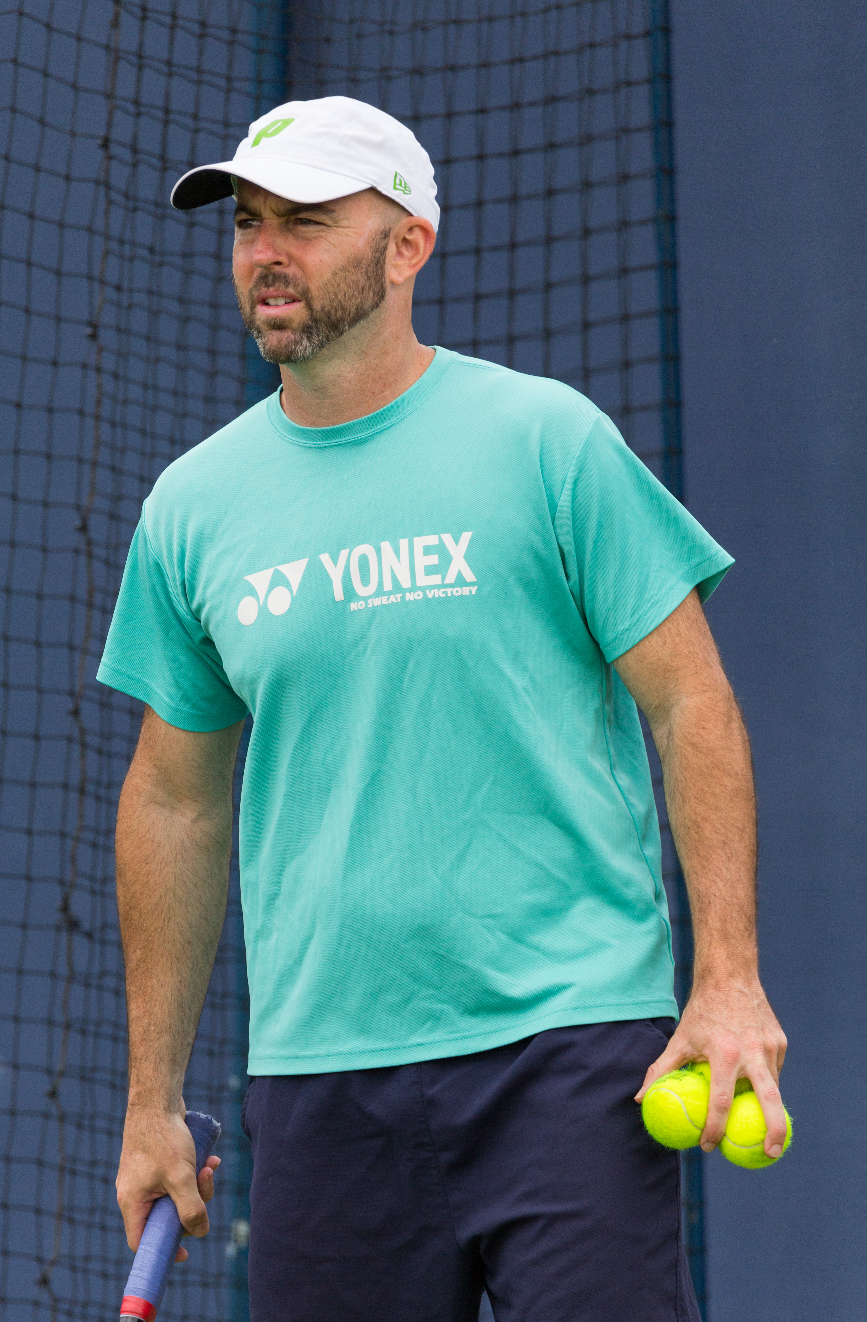 Jamie Delgado coaching Gilles Müller during practice at the Queens Club Aegon Championships in London, England.